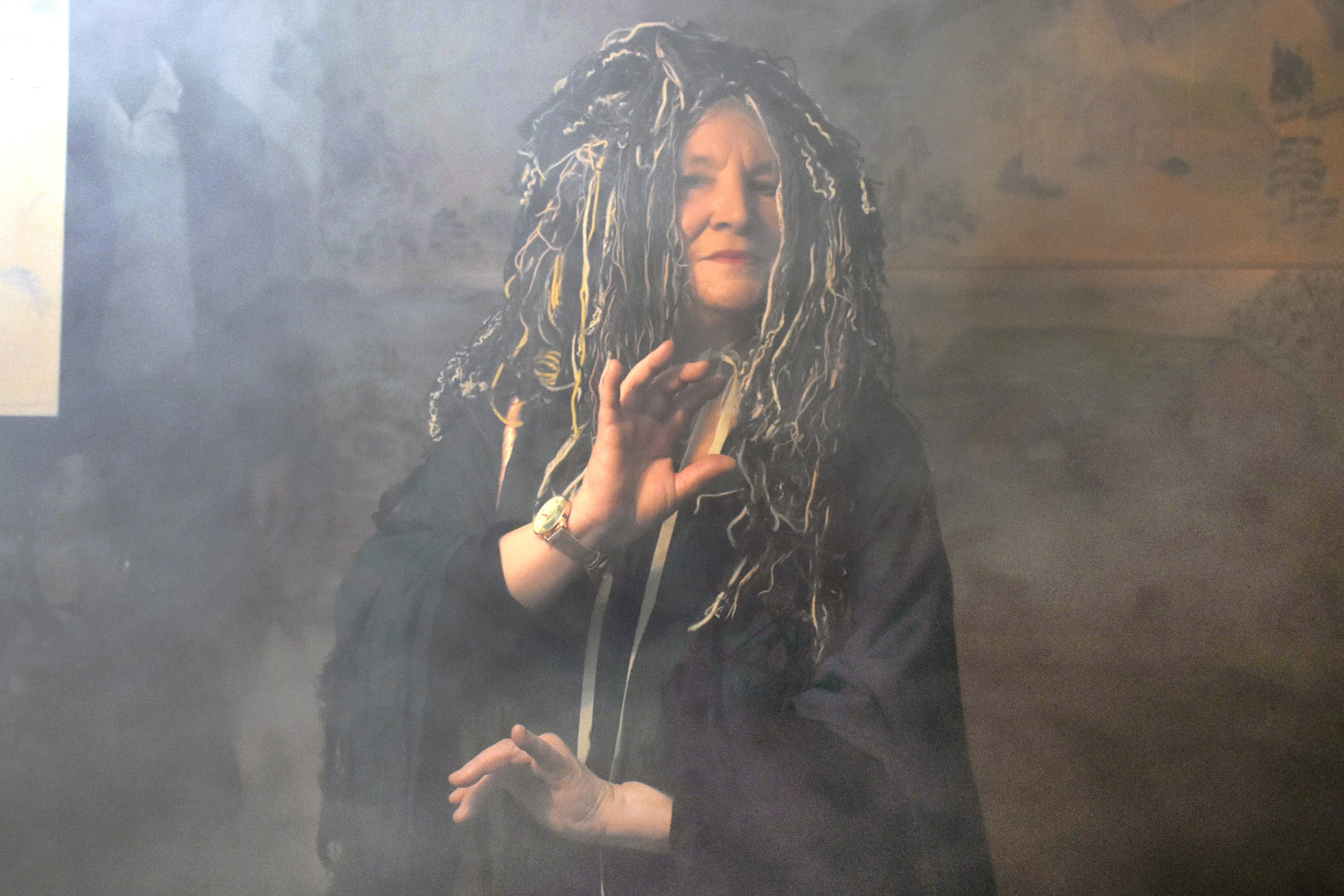 Luisa Demar in her music theatre "Grieg and the life of Peer Gynt"